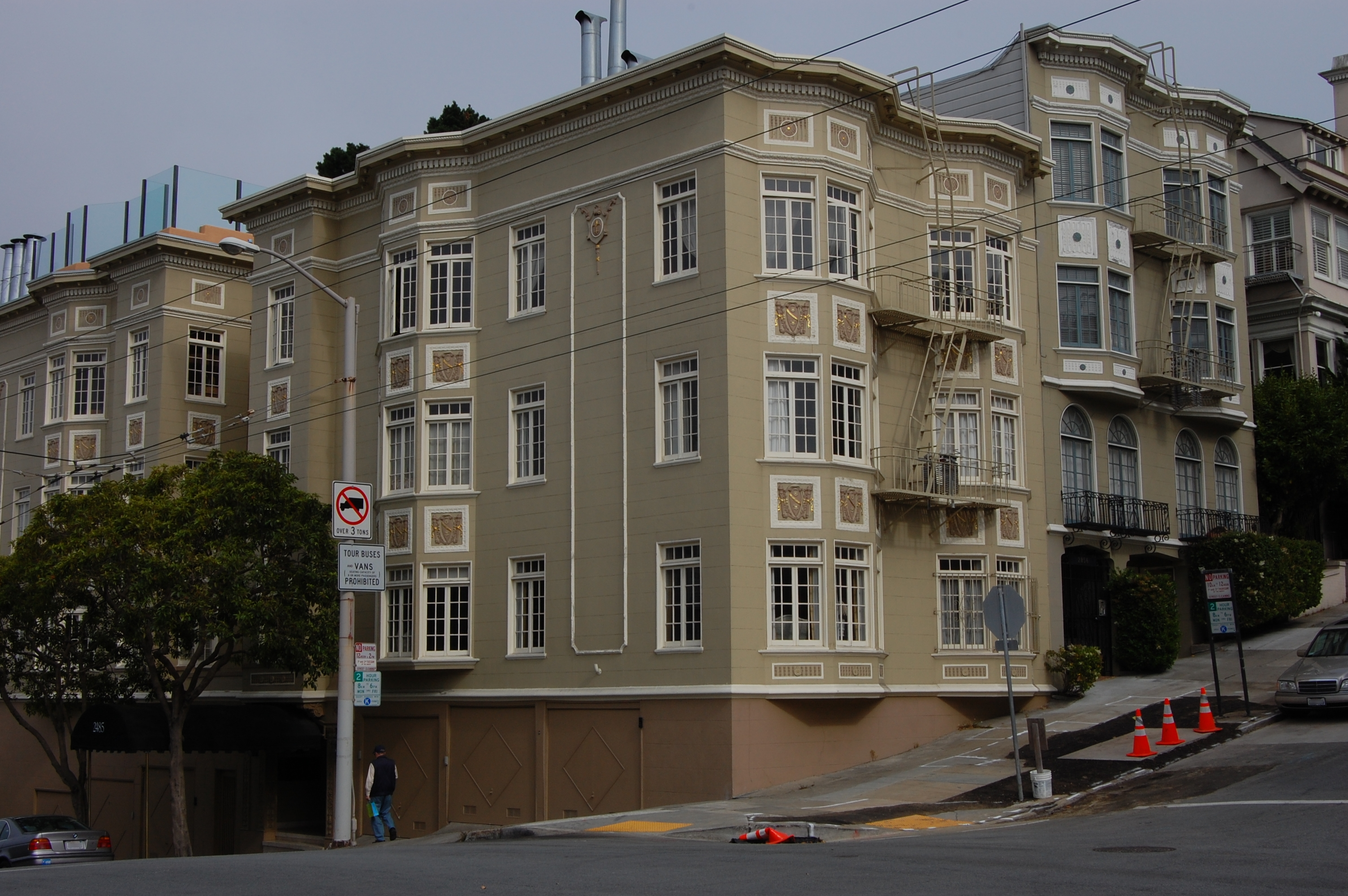 Built in 1925. 2485 Union Street. San Francisco, California, USA